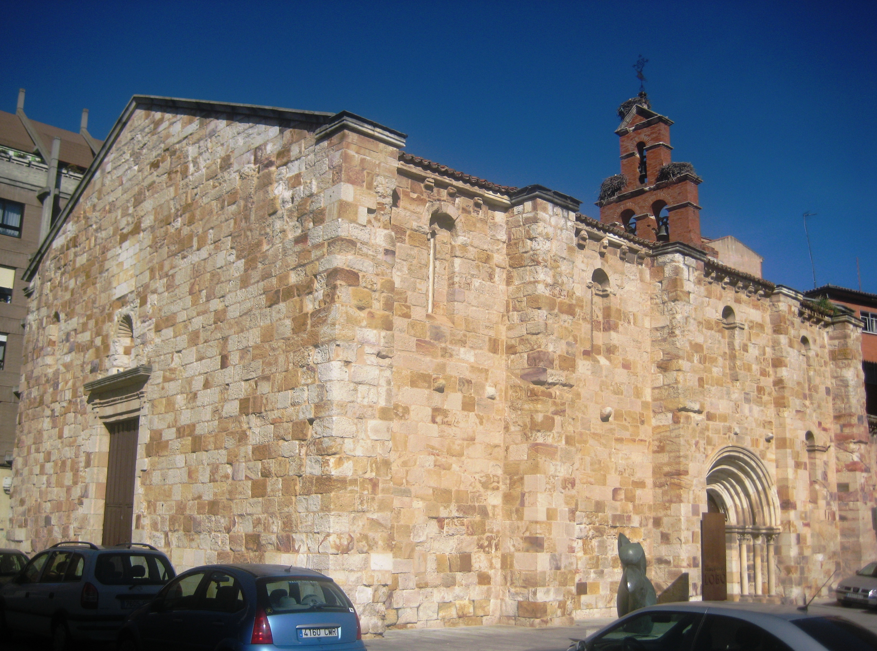 Church of San Esteban (Saint Stephen) in Zamora, Spain, temporary home of the Baltasar Lobo Museum.